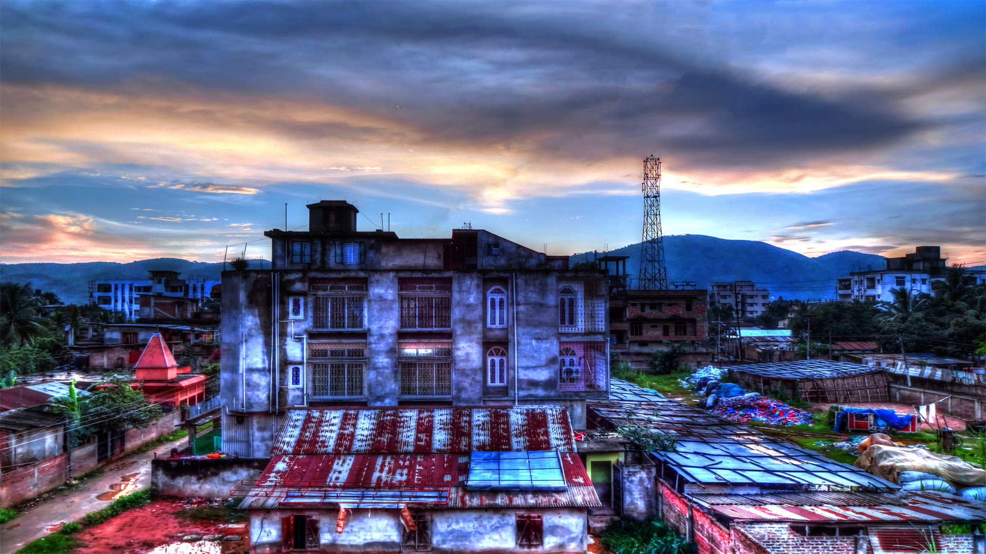 HDR View of Lalganesh.jpg